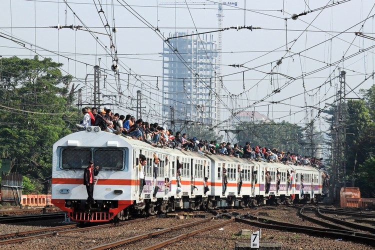 A crowded KRL electric multiple unit train with passengers riding on the outside in Jakarta, Indonesia.